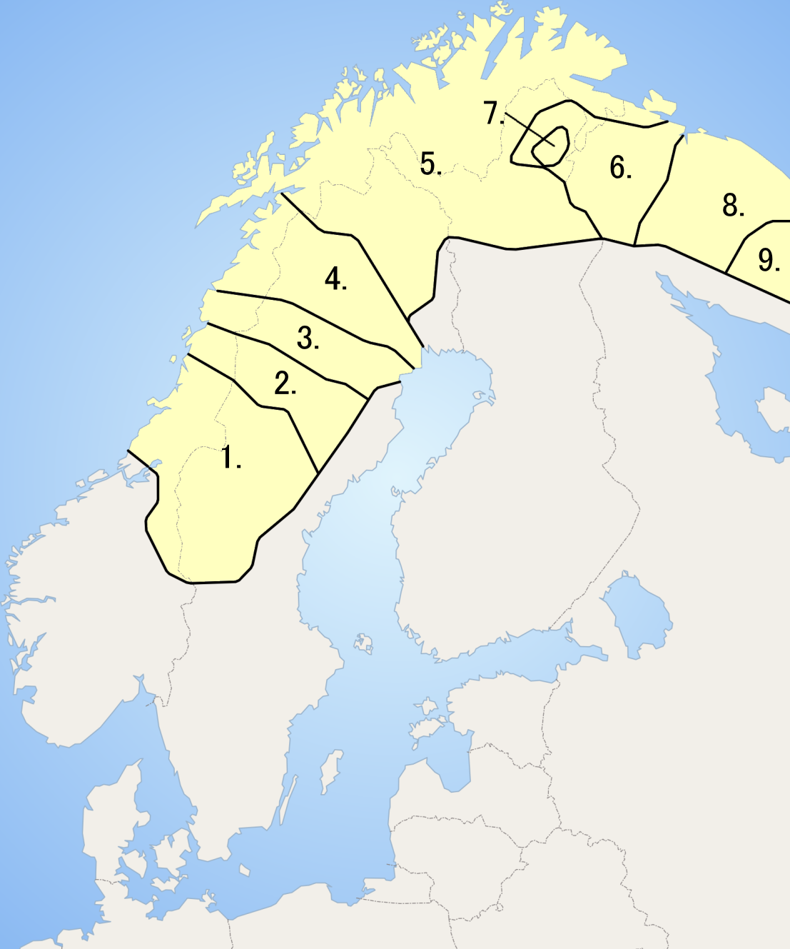 A map of Sami dialects numbered 1. Southern Sami 2. Ume Sami 3. Pite Sami 4. Lule Sami 5. Northern Sami 6. Skolt Sami 7. Inari Sami 8. Kildin Sami 9. Ter Sami